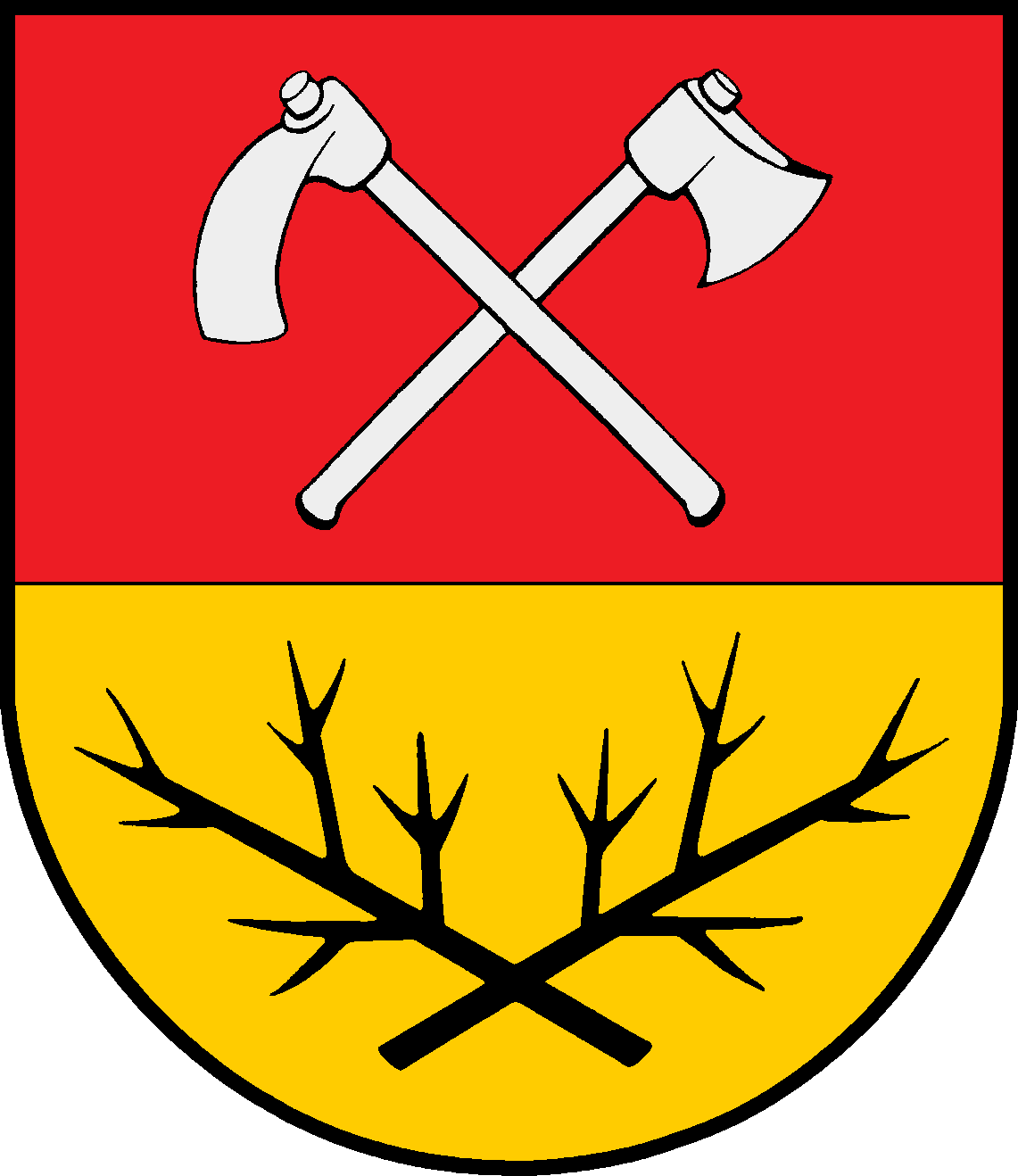 Coat of arms of the municipality Hagen in Schleswig-Holstein, Germany.